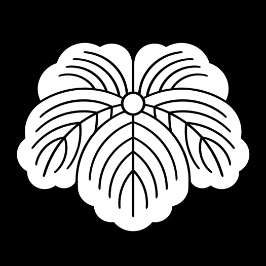 Japanese family crest "Tsuta", a leaf of Japanese ivy.